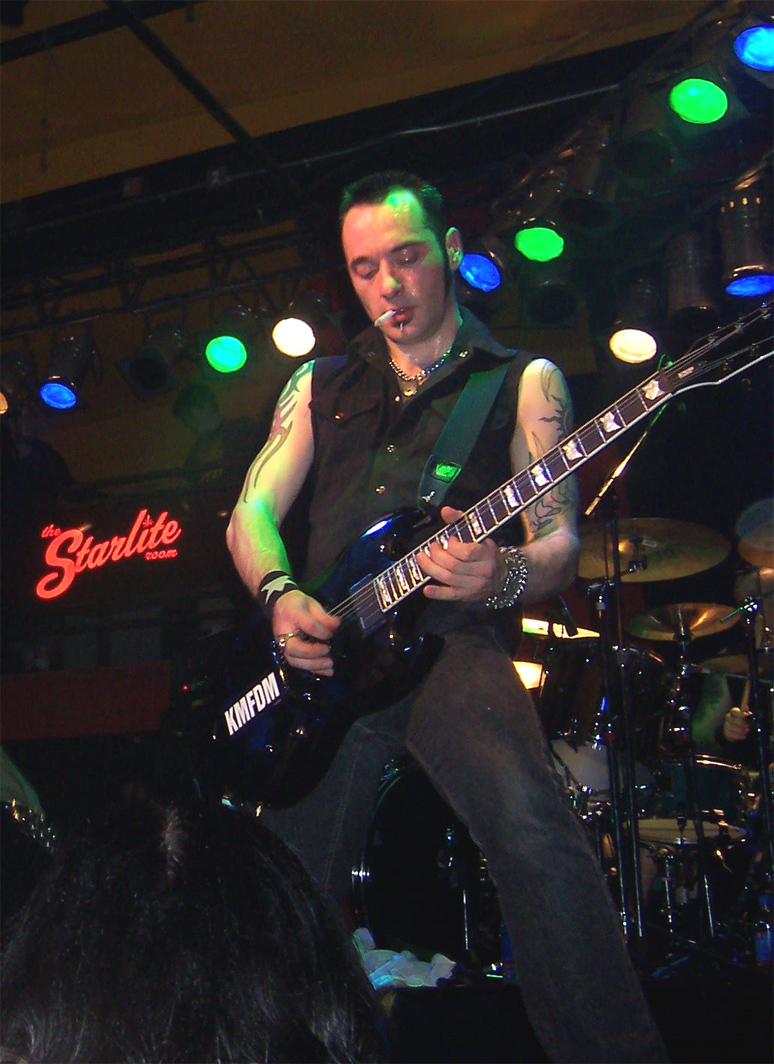 KMFDM gutarrist Jules Hodgson in "The Starlite Room" October 9 2004 in Edmonton, Alberta, Canada. Used with permission from the photographer Mike Kendrick.